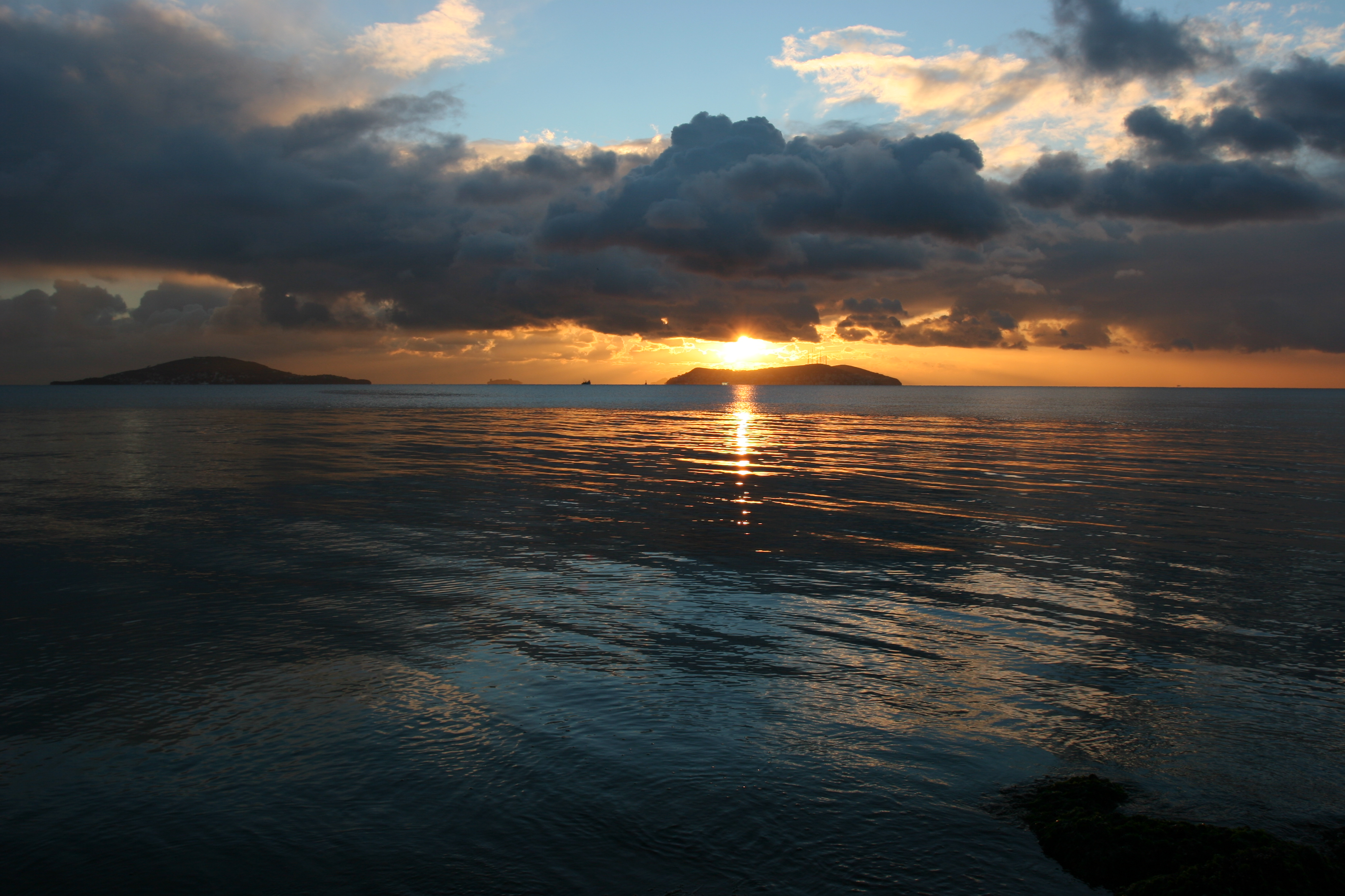 Sunset in Istanbul/Turkey. Islands on the photograph are part of what is known as Princes' Islands ("Adalar" in original Turkish), a chain of islands off the coast of Istanbul. Main island shown here is Heybeliada.